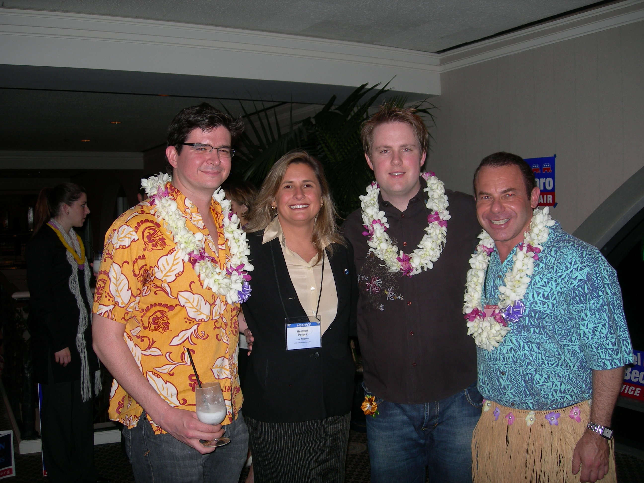 Scott Schmidt, Heather Peters, Charles Moran 7 Kevin Norte at LCR's Luau